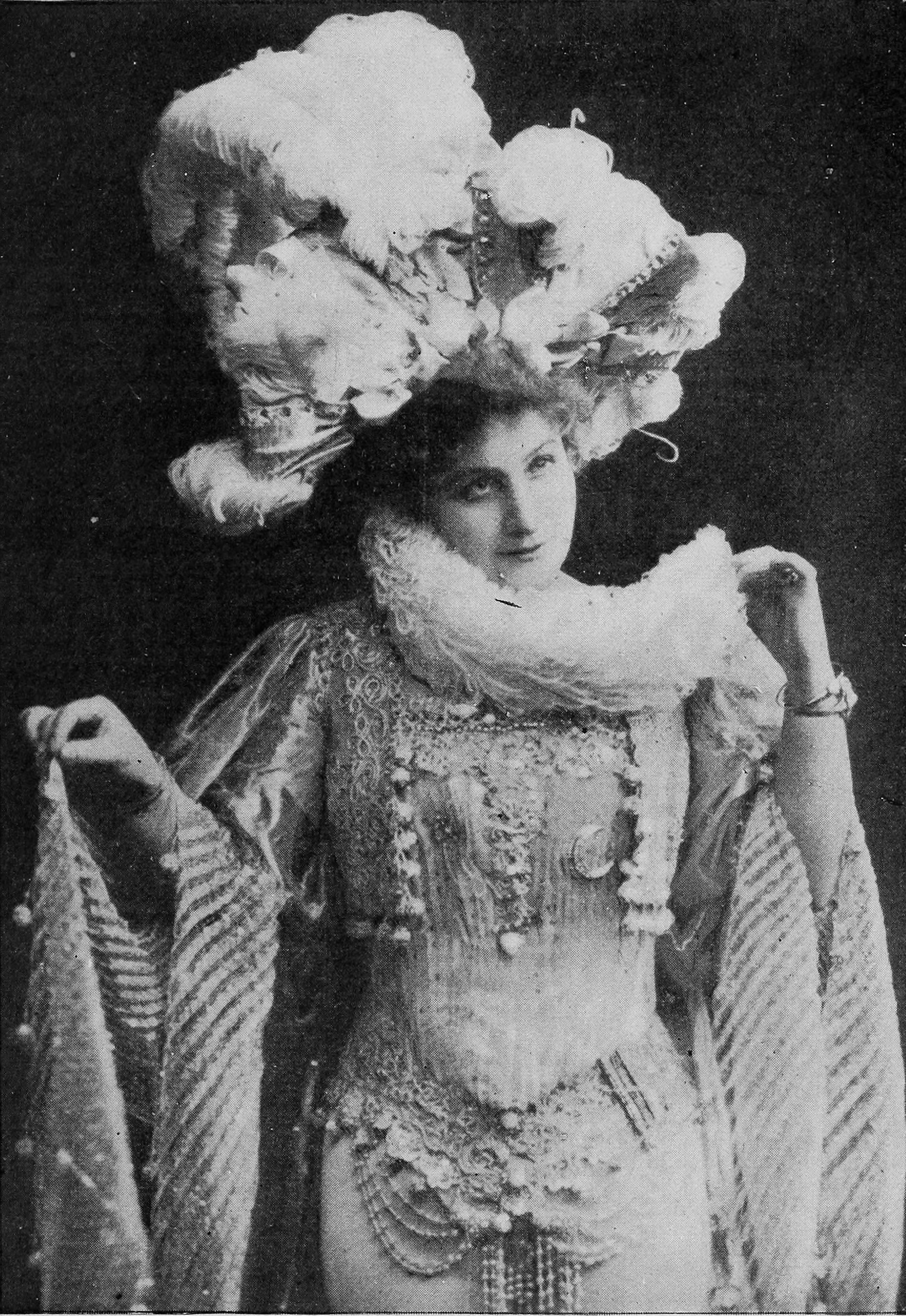 Marie Loftus, British burlesque artiste